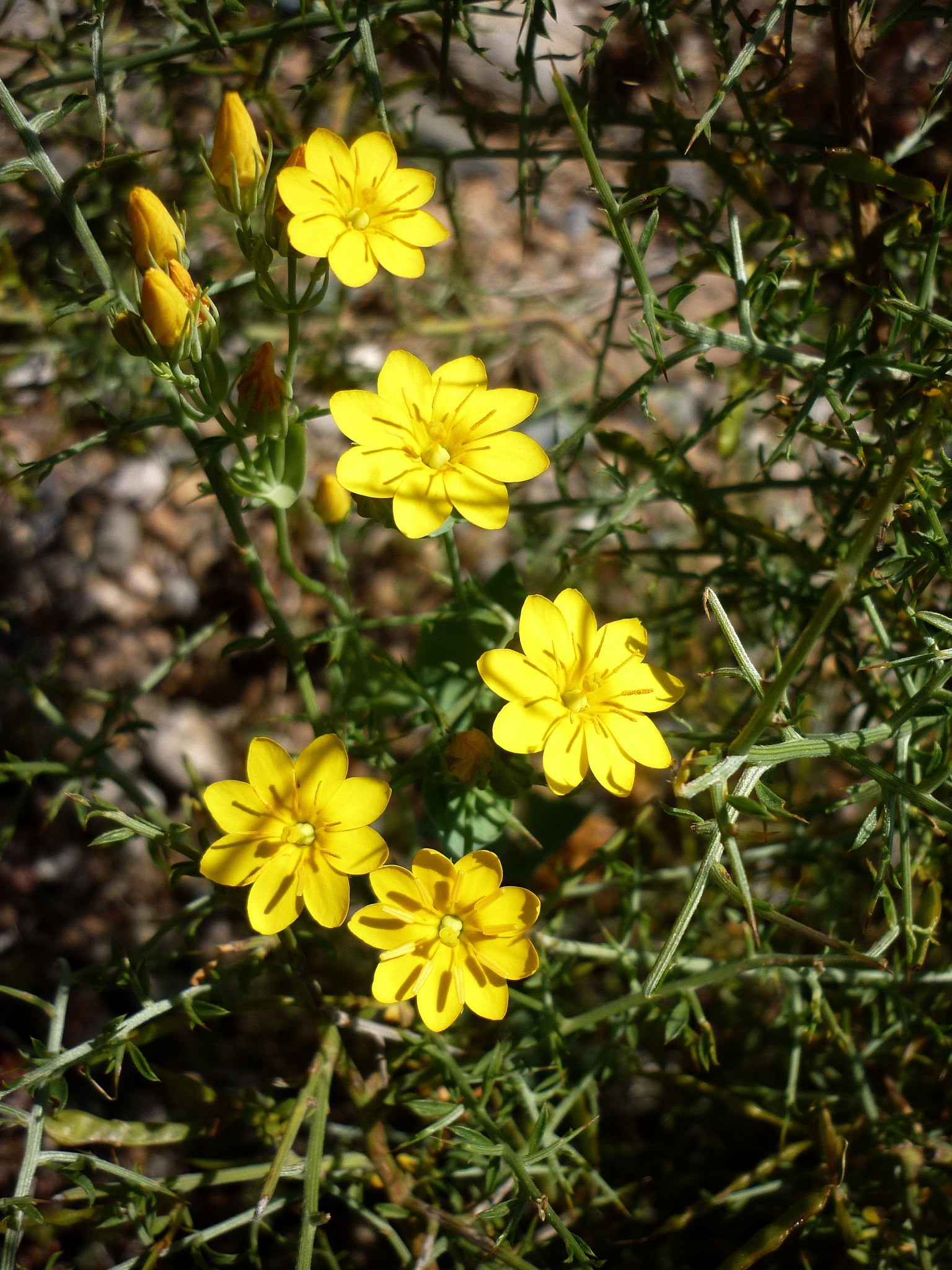 Blackstonia perfoliata. In Ponts (Noguera-Catalunya). To 400 m. altitude